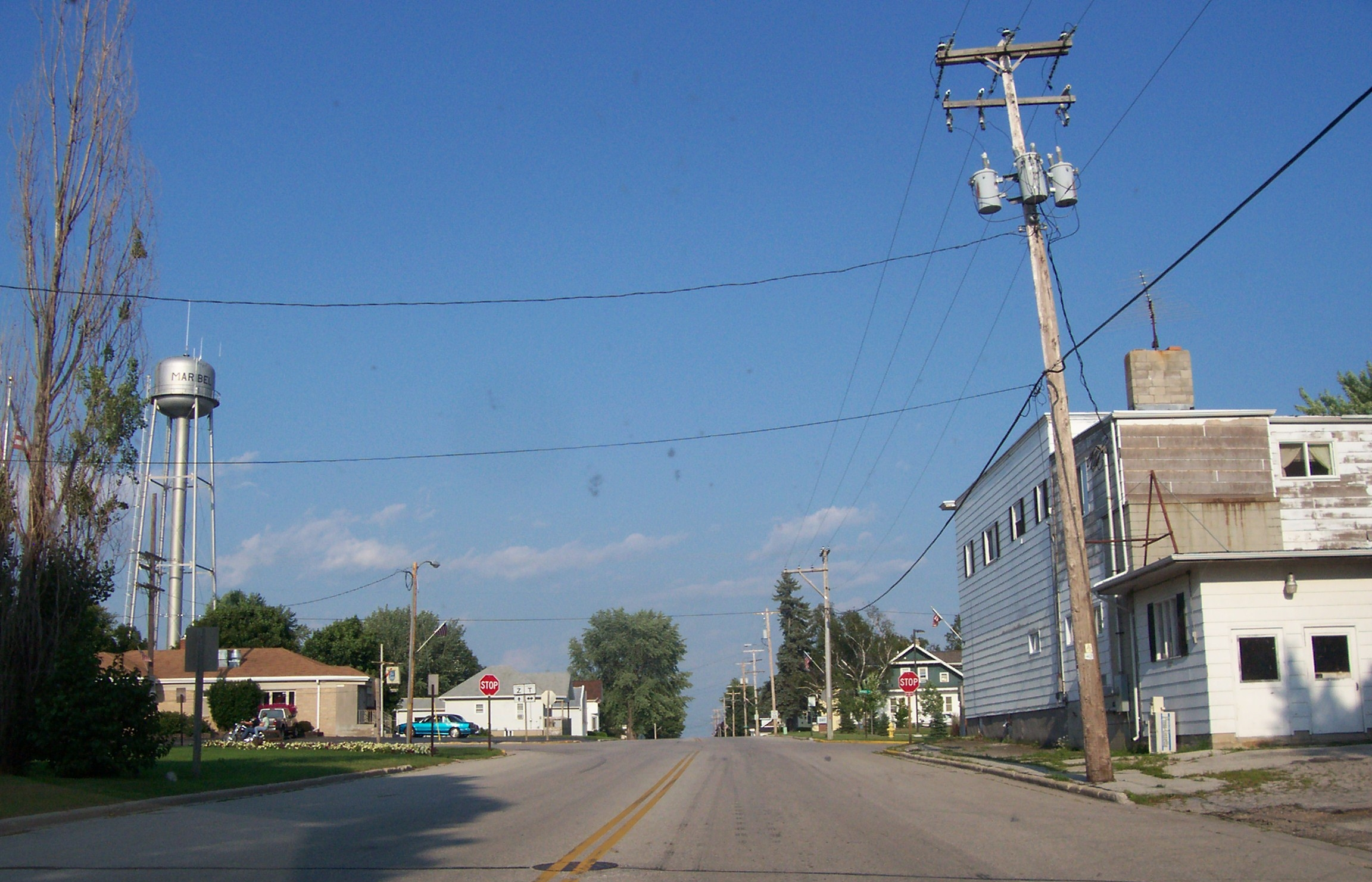 Looking east at downtown Maribel, Wisconsin, USA.